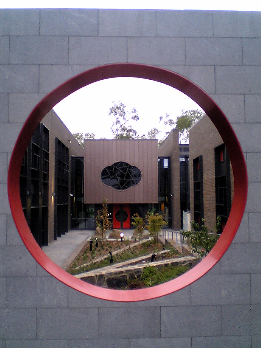 Courtyard of the Australian Centre on China in the World, at the Australian National University